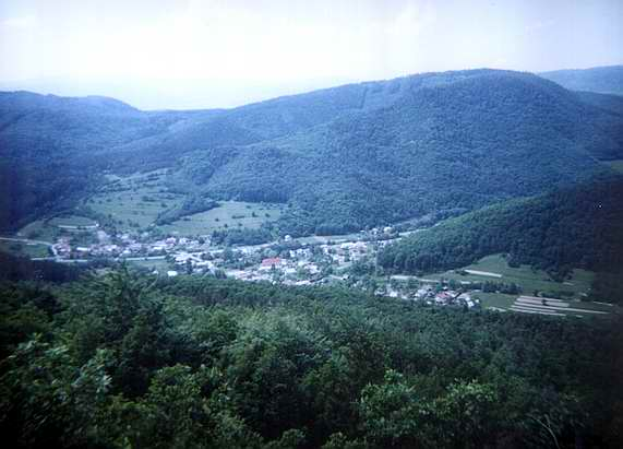 A view from Ďurova Skala towards the village of Dolná Ves